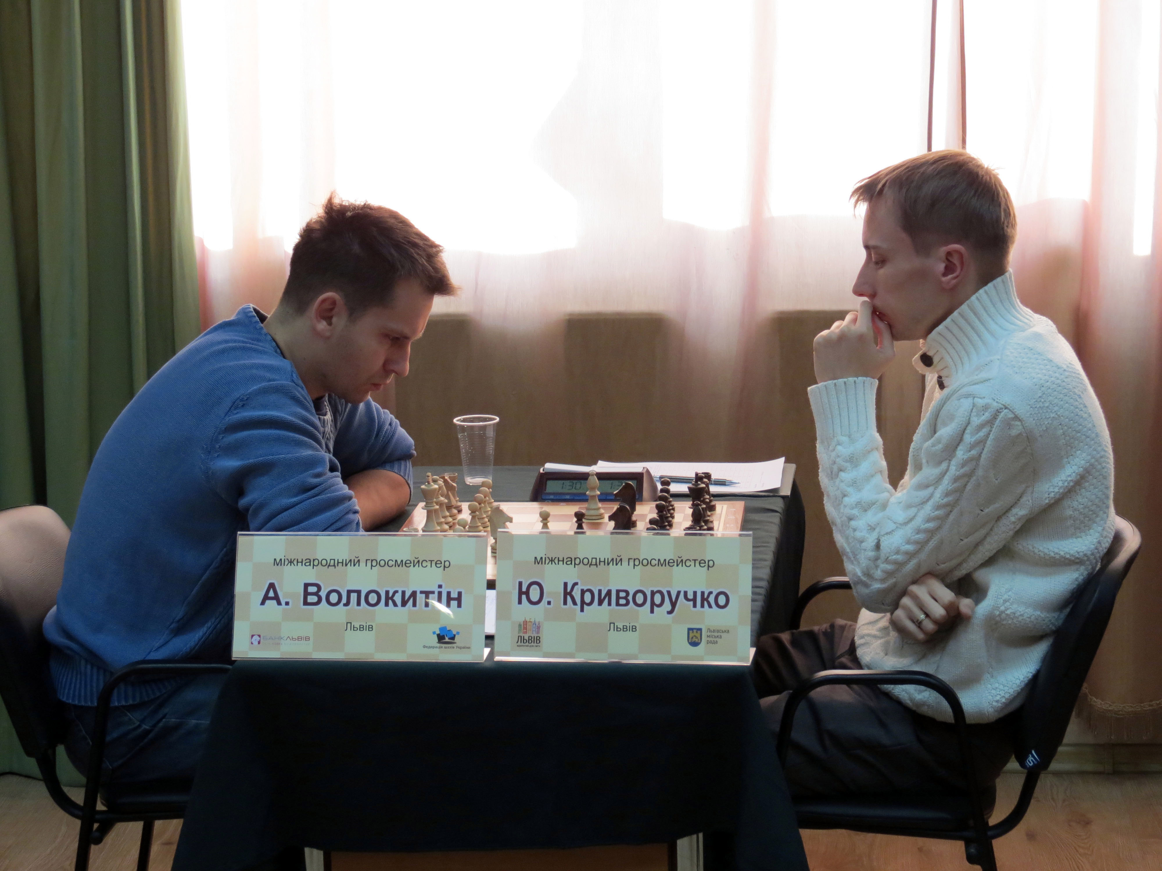 Andriy Volokitin - Yuriy Kryvoruchko Ukraine ch 2015